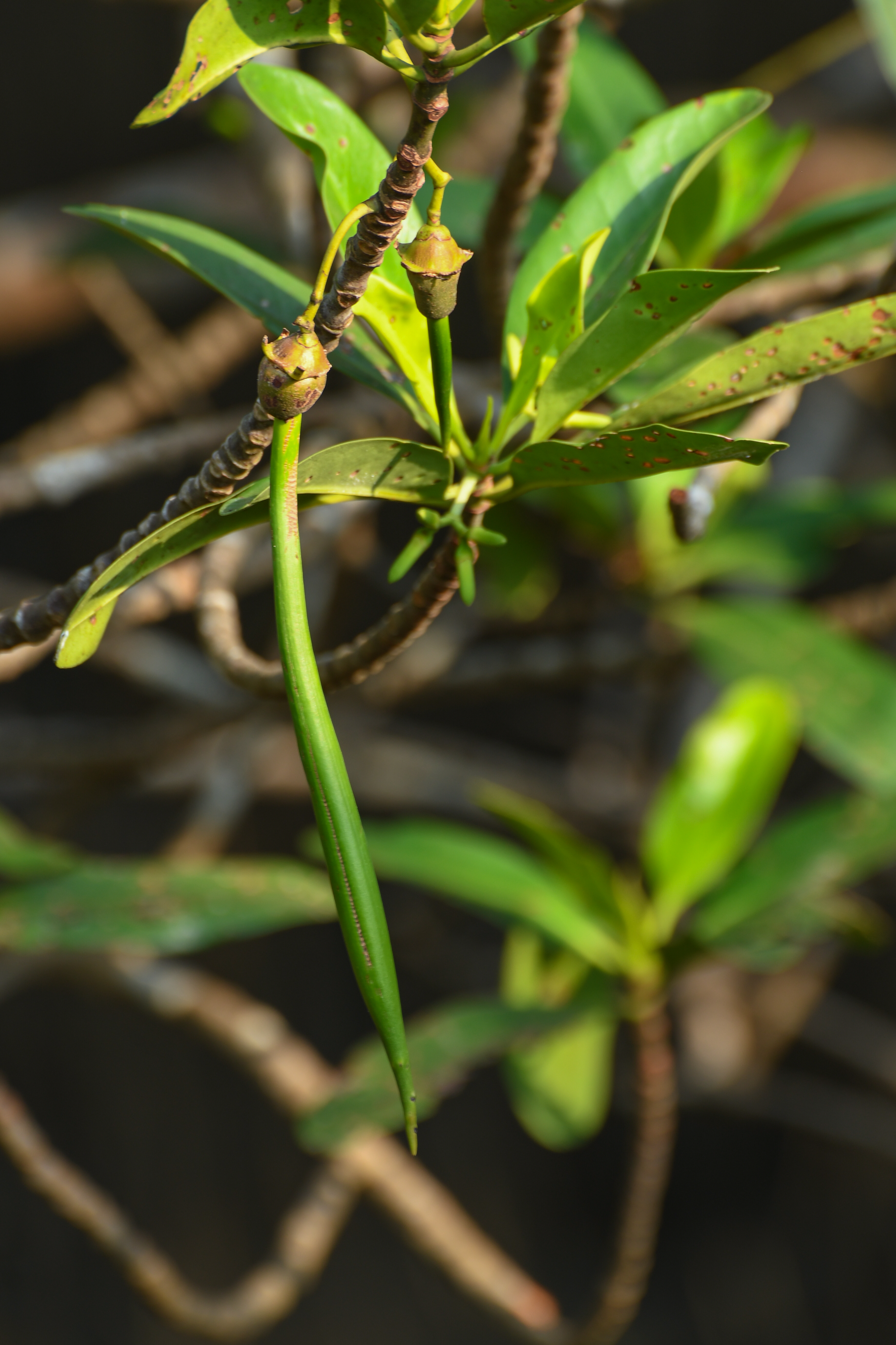 Mangroves